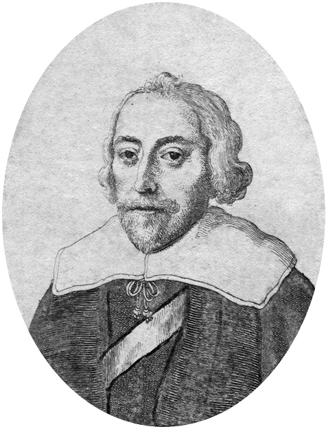 Depicted person: Oliver St John, 1st Earl of Bolingbroke